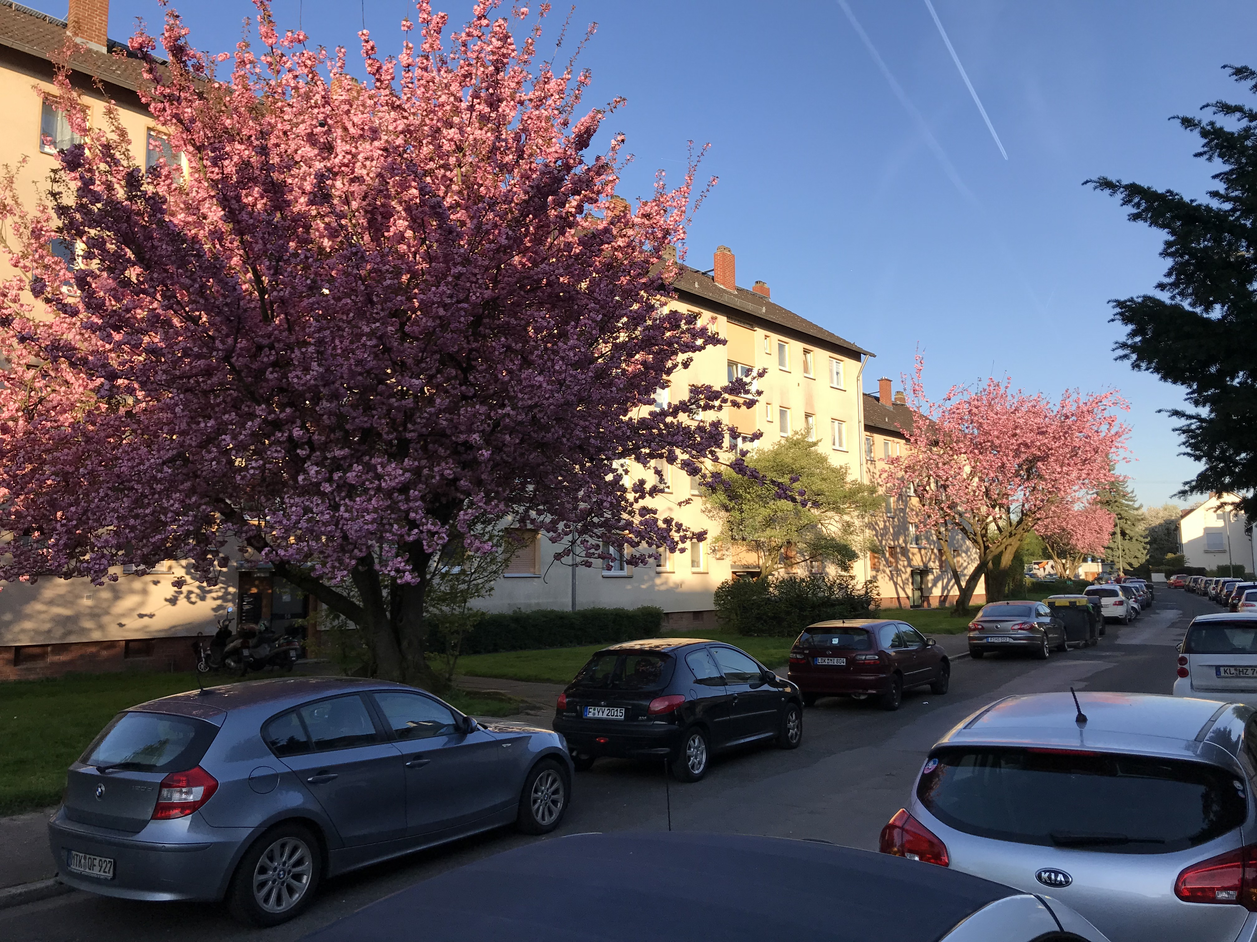 Sossenheim frankfurt